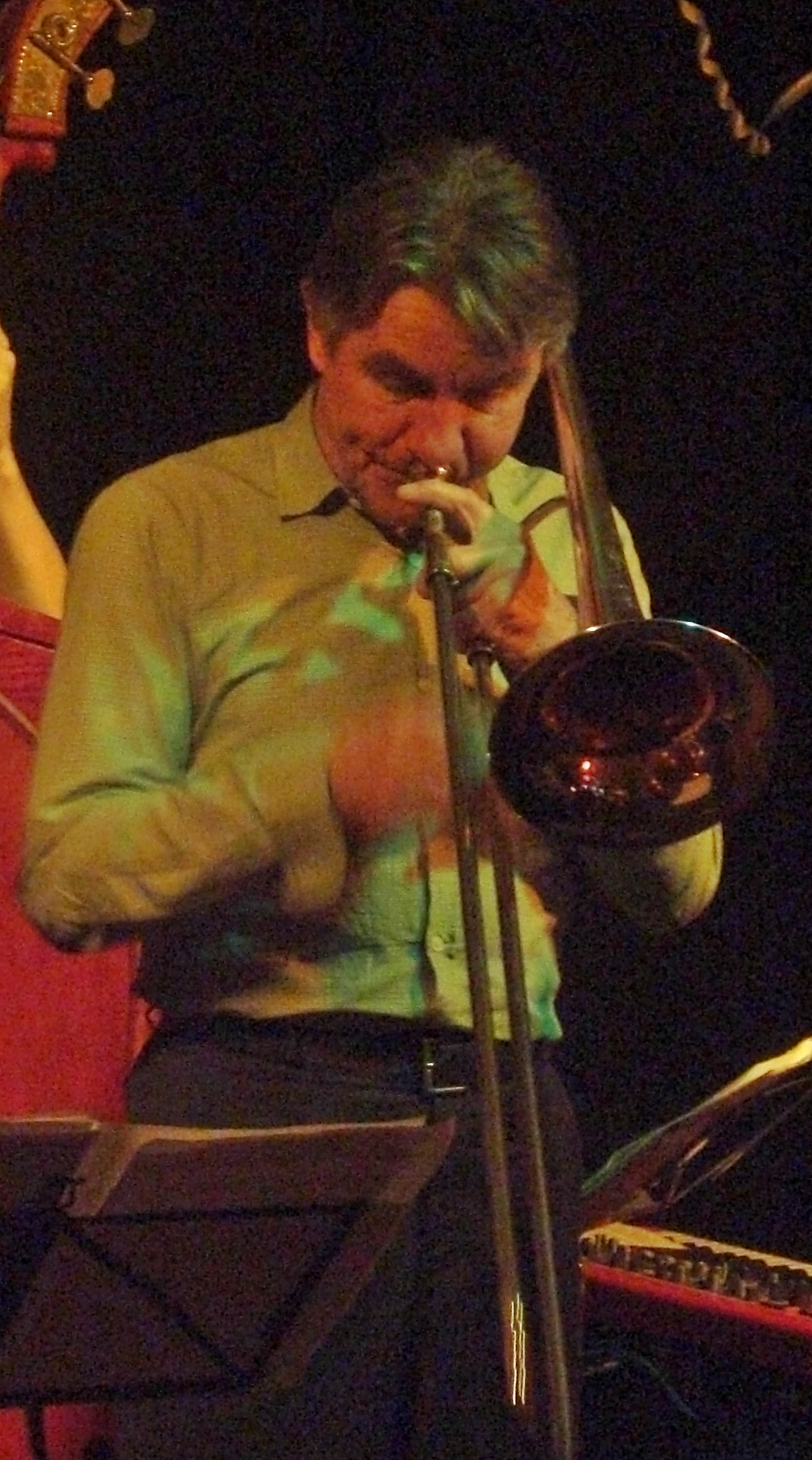 Jazz-Musiker mit seinem Quartett in dem Club "Hafenbahnhof" in Hamburg-Ottensen Während der Musikreihe "Jazzraum"